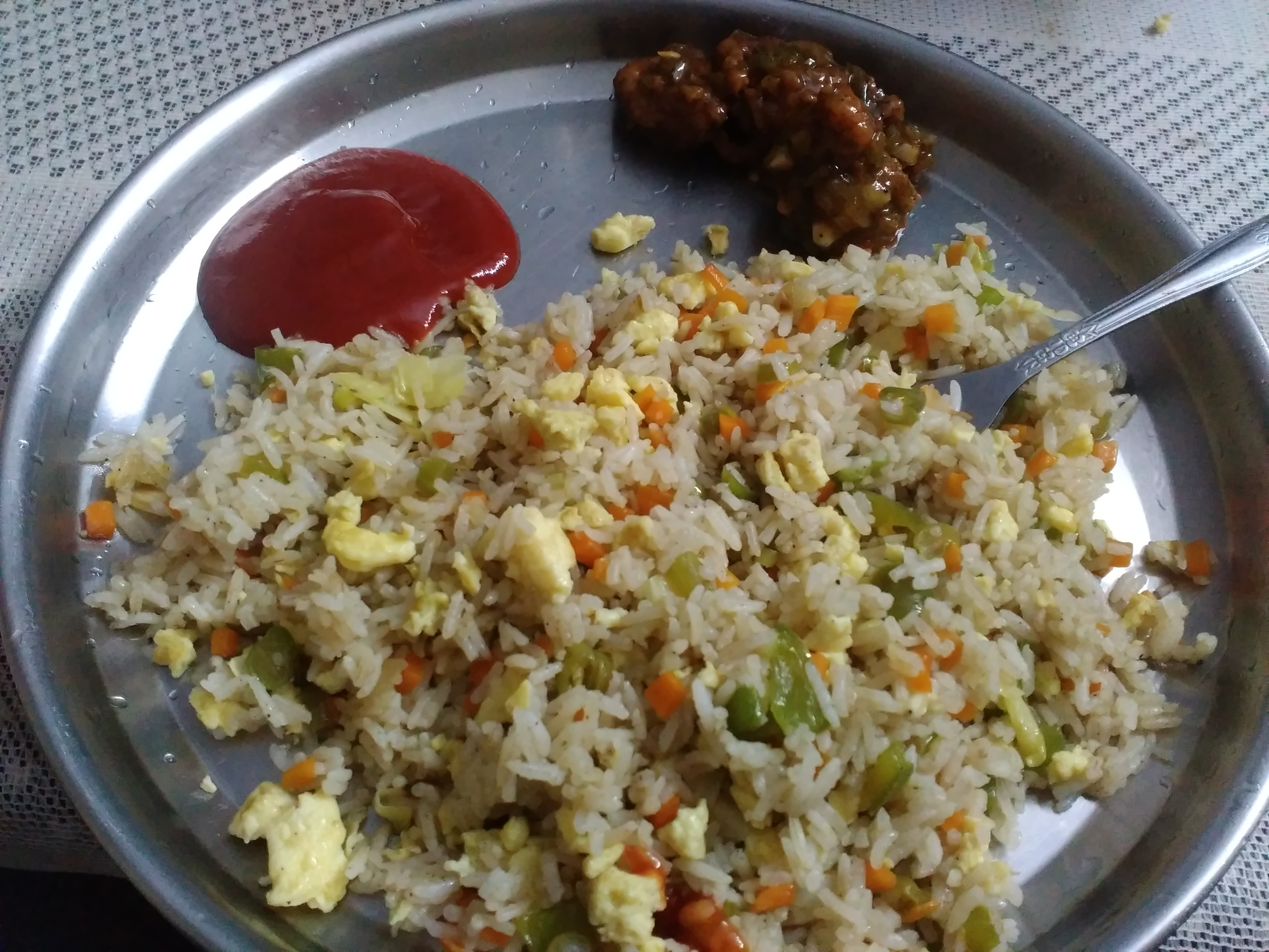 Home Made Egg Fried Rice, with Ketchup and Chicken Curry.